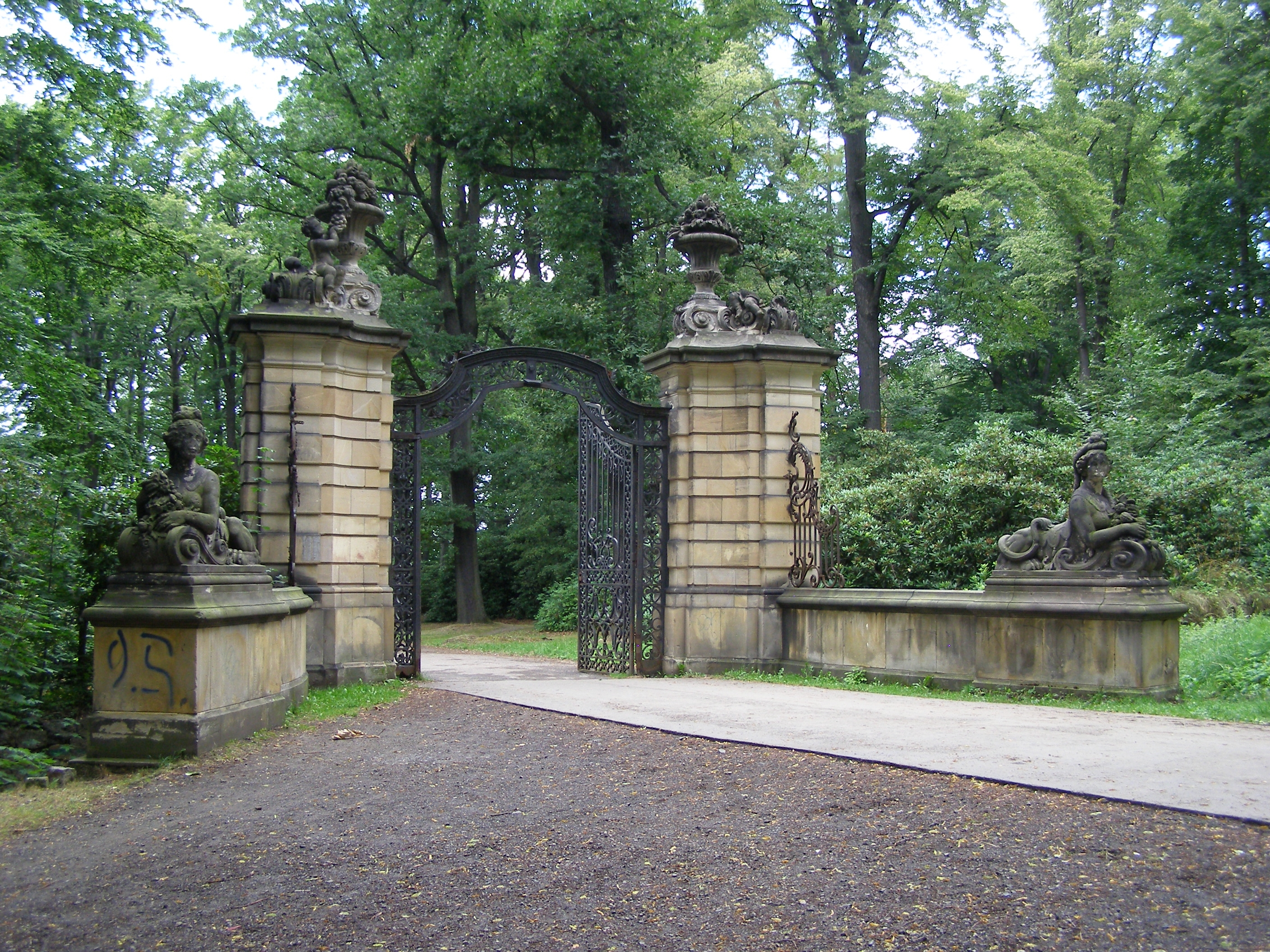 Wałbrzych - Książ Castle